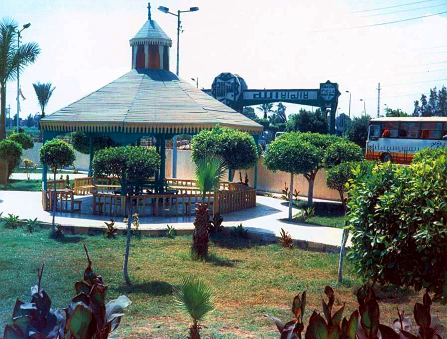 Om El-Qura Garden, Desouk